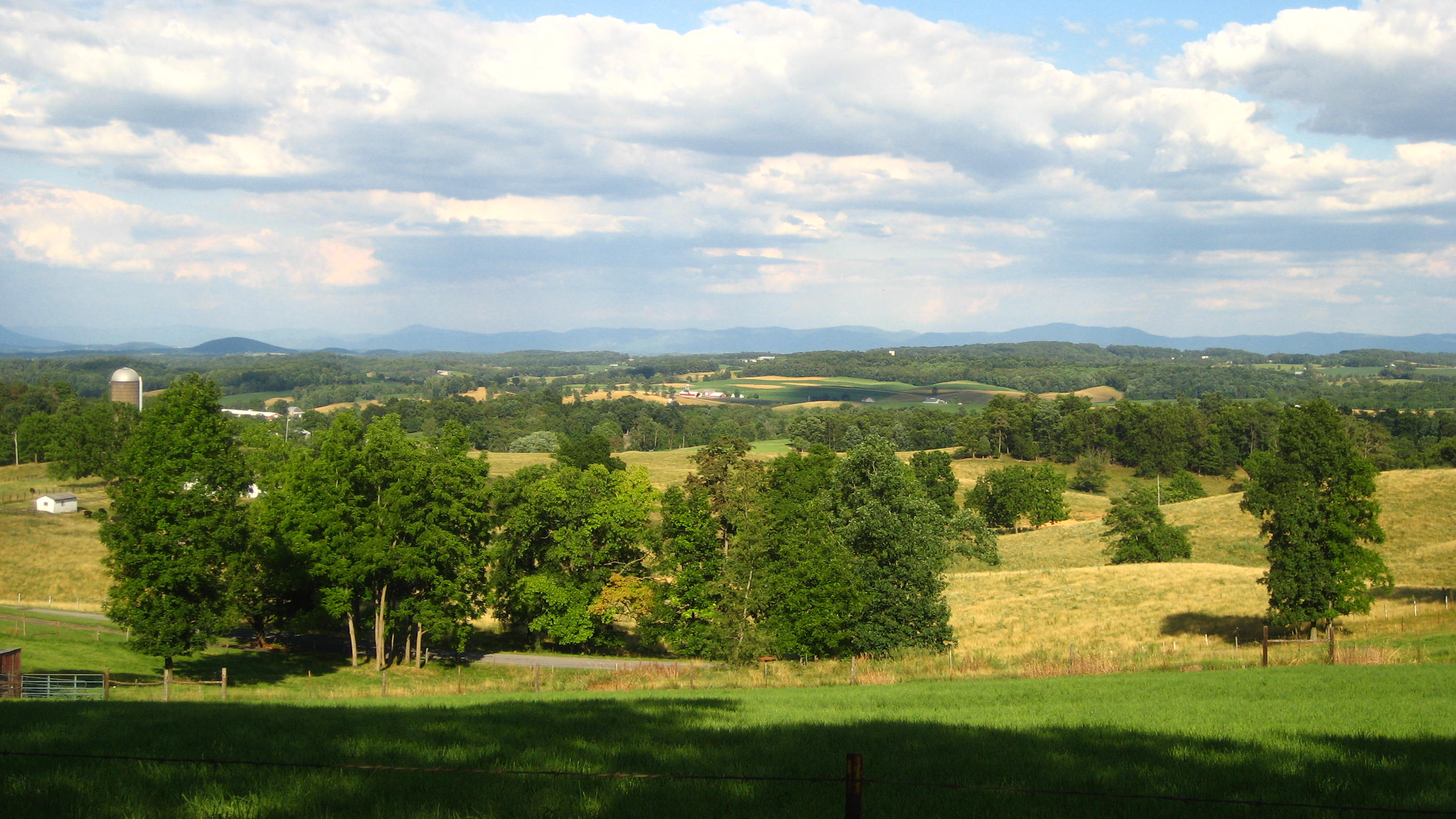 View from Parnassus